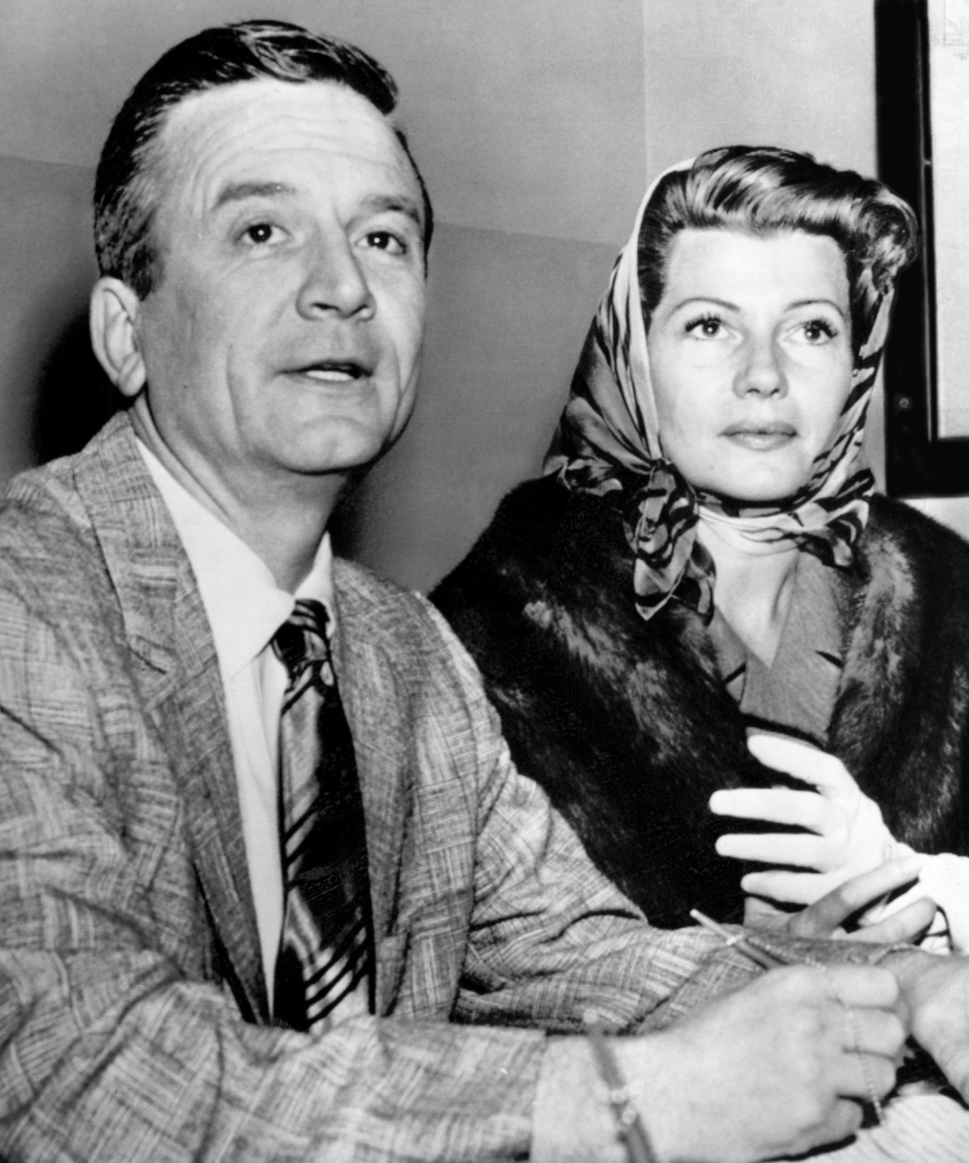 Photograph of Rita Hayworth and James Hill obtaining their marriage license Caption on photograph run in the Cedar Rapids Gazette reads as follows: RITA GETS A LICENSE FOR HER FIFTH MARRIAGE — Actress Rita Hayworth and Producer James Hill are pictured as they filled out an application for a marriage license in Santa Monica Monday. They told newsmen that the wedding—which will be the fifth for Rita and the first for Hill—will take place early next month, with a honeymoon to follow in Europe.